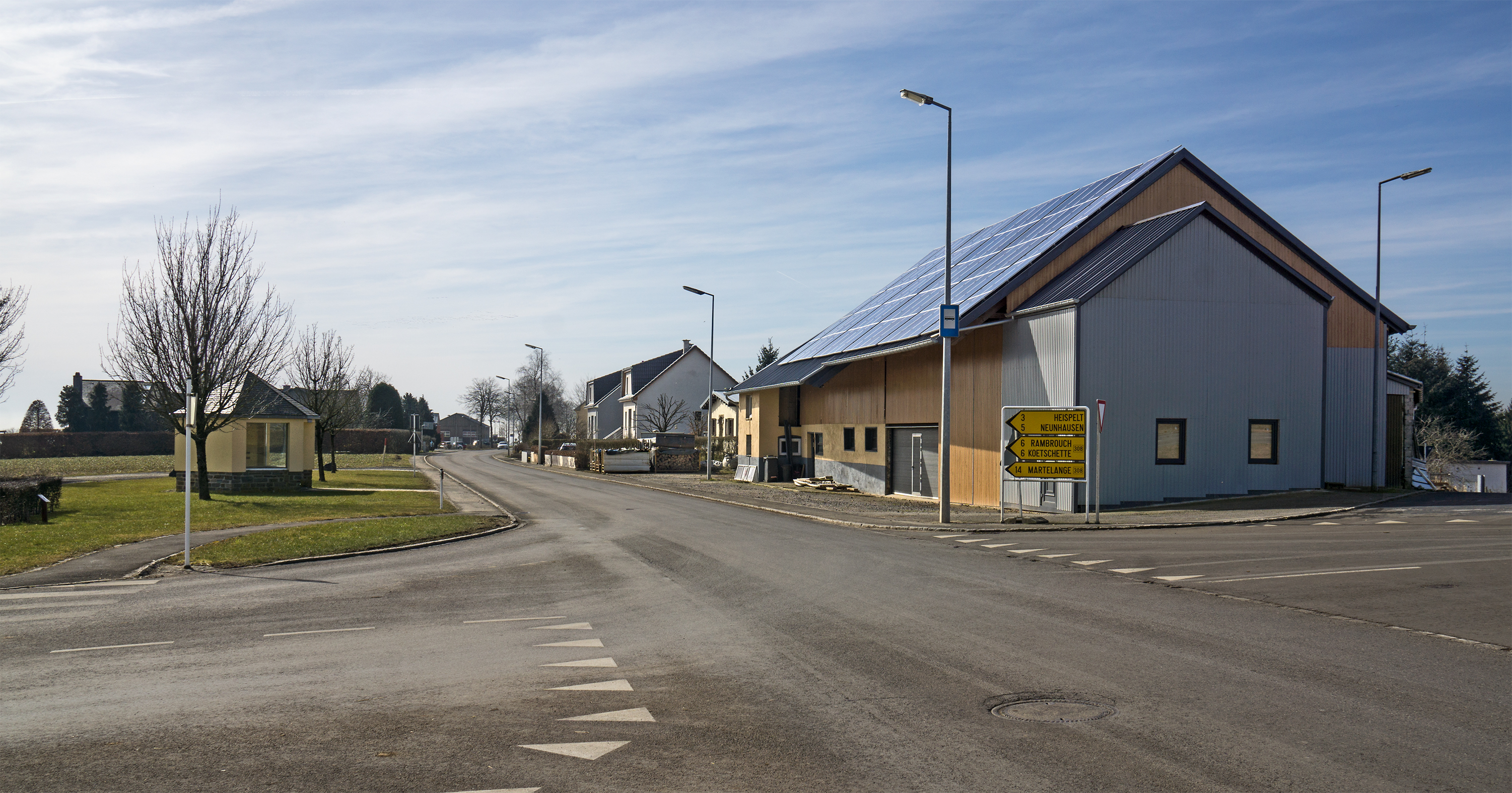 Main road in Grevels